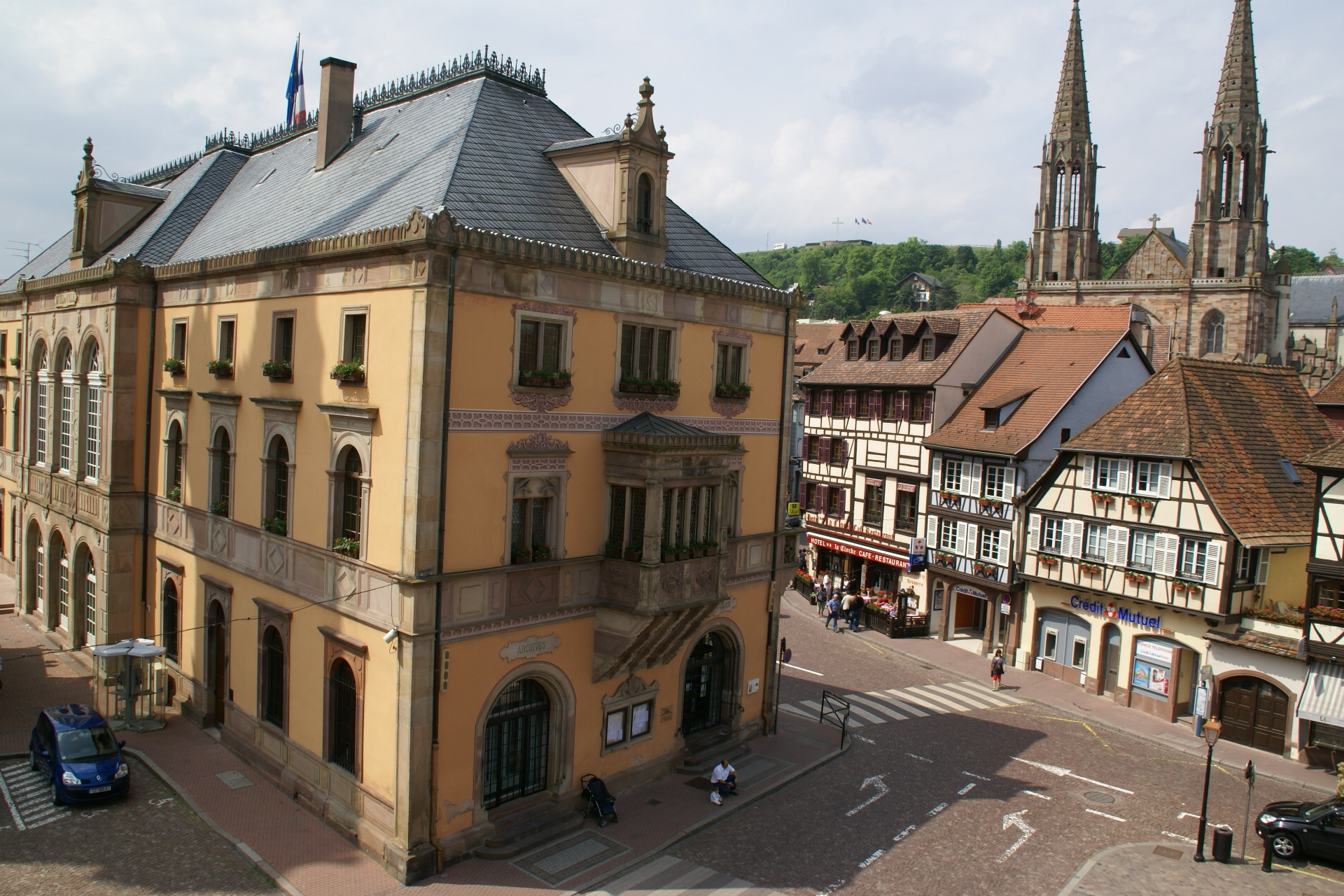 Town Hall at the Place du Marché (Main Square) as seen from hotel Diligence, Obernai, France